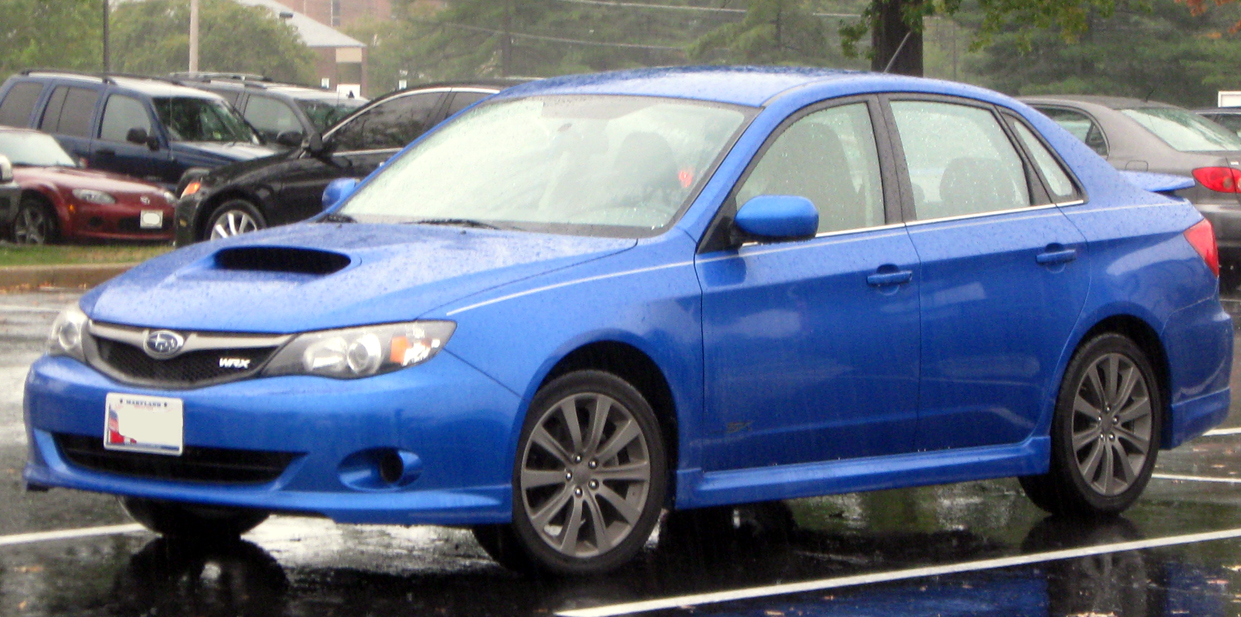 Subaru WRX photographed in College Park, Maryland, USA.